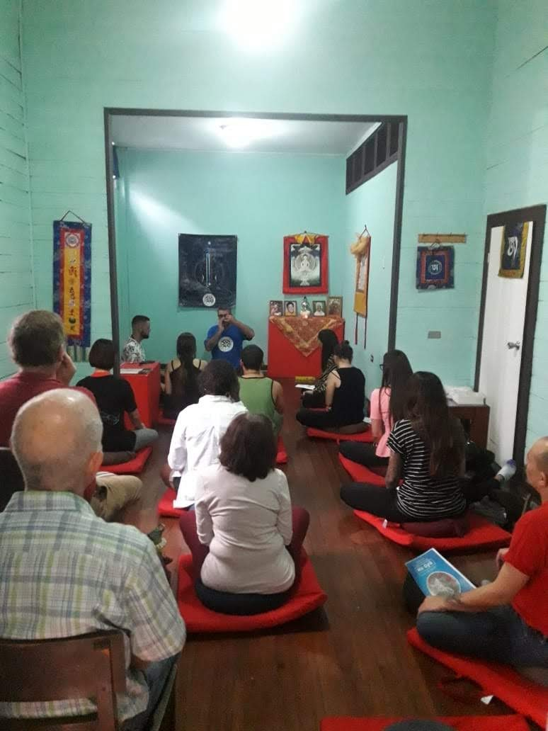 Tibetan yoga practices in Costa Rica